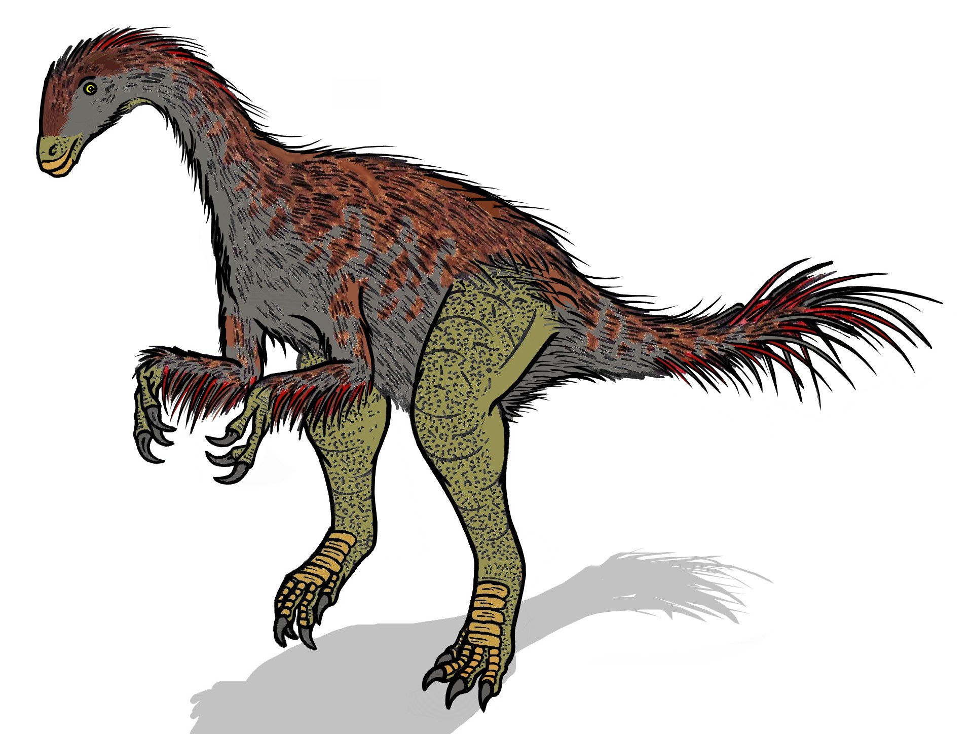 Restoration of the Therizinosauroid dinosaur Alxasaurus elesitaiensis, here depicted with feathers. Since Alxasaurus close relative Beipiaosaurus likely had simple, hairlike feathers( based on fossils ), and scientists belive Alxasaurus also was covered with them. The basic restoration is based on a skeleton found here. The fossil is relatively incomplete, see a diagram of it here.